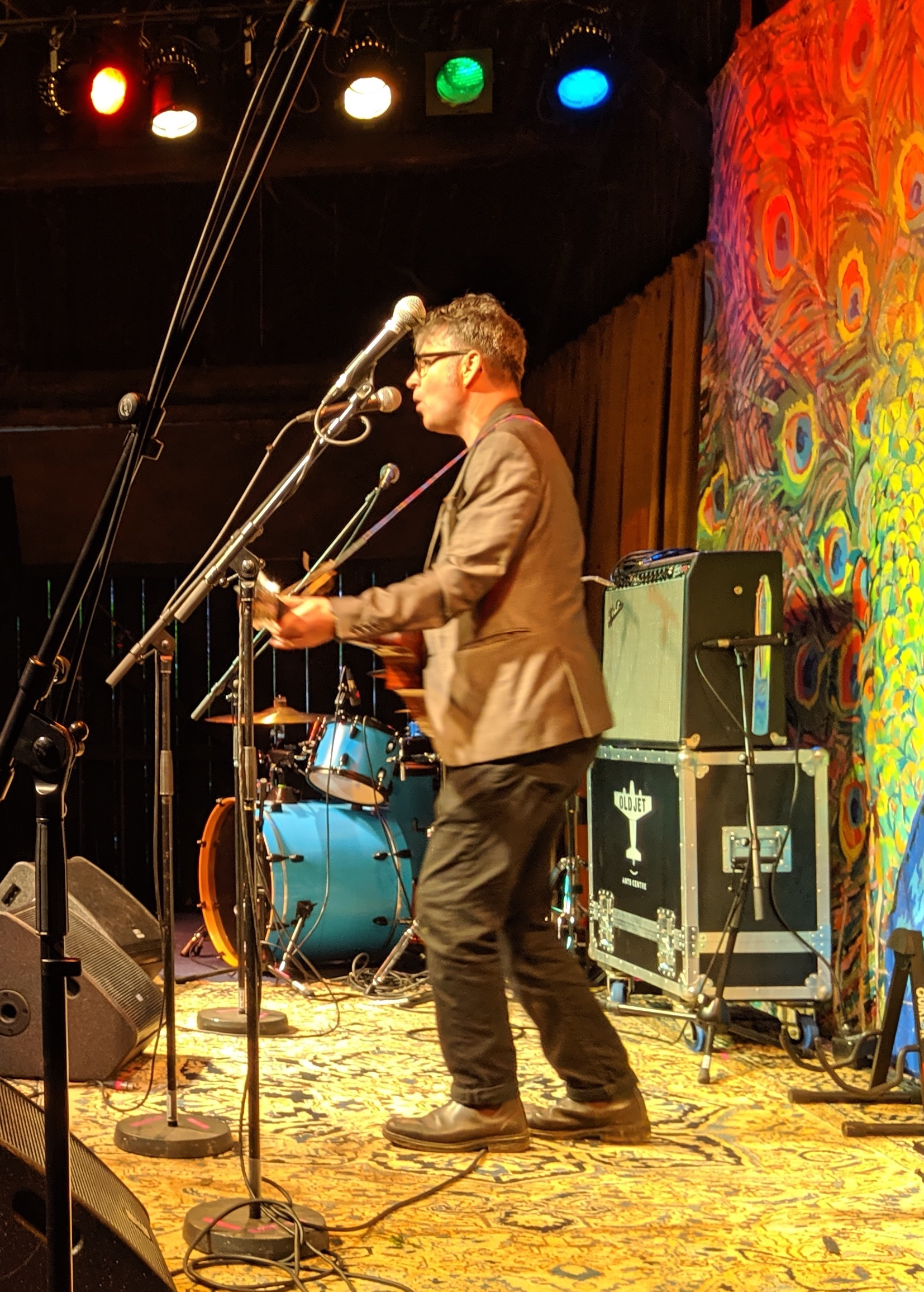 Irish singer/songwriter Vincent Cross performing live at the Maverick American Festival in the UK in 2019